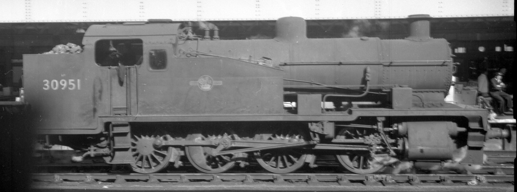 Ex-Southern Railway Z class 0-8-0T Photographed at Exeter Central, early September 1960